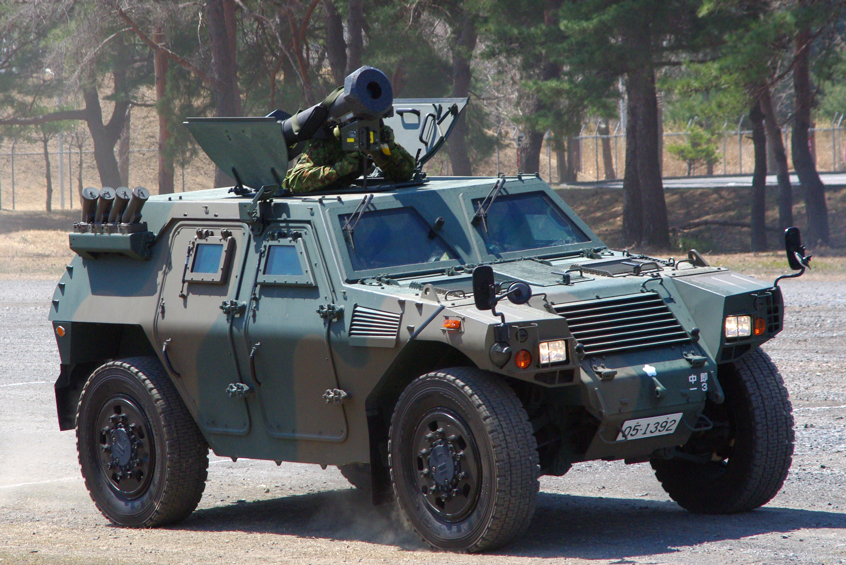 JGSDF Light Armored vehicle & Type 01 LMAT,Central Readiness Regiment.Taken by Los688,in Camp Utsunomiya,Japan,at 08-Apr-2012.PD-self